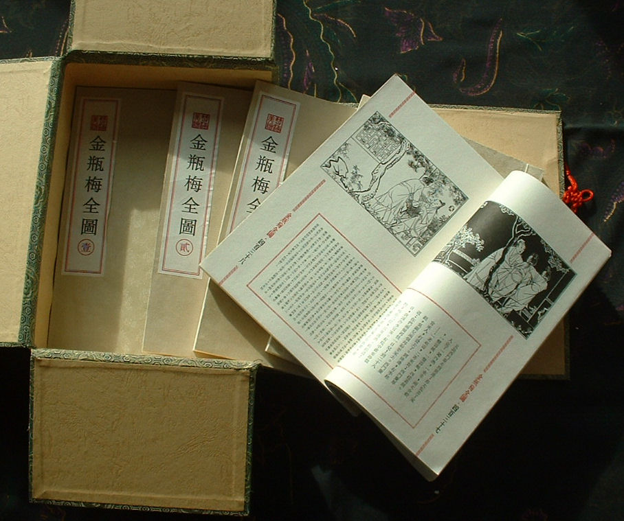 the Chinese novel Jinpingmei (金瓶梅„Jīnpíngméi)